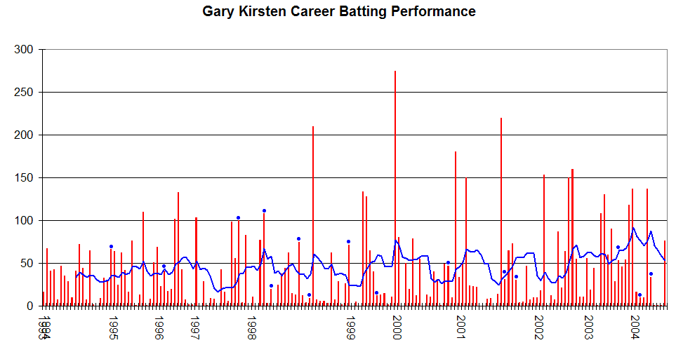 This graph details the Test Match performance of Gary Kirsten. It was created by Raven4x4x. The red bars indicate the player's test match innings, while the blue line shows the average of the ten most recent innings at that point. Note that this average cannot be calculated for the first nine innings. The blue dots indicate innings in which Kirsten finished not-out. This graph was generated with Microsoft Excel 2002, using data from Cricinfo and .au.